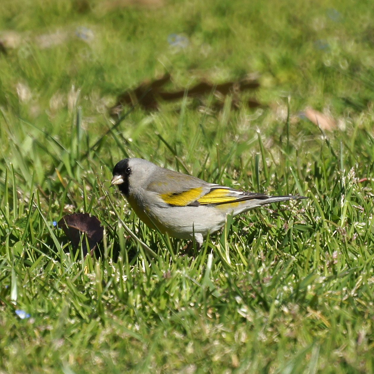 Lawrence's Goldfinch Spinus lawrencei, male. Redlands, California.